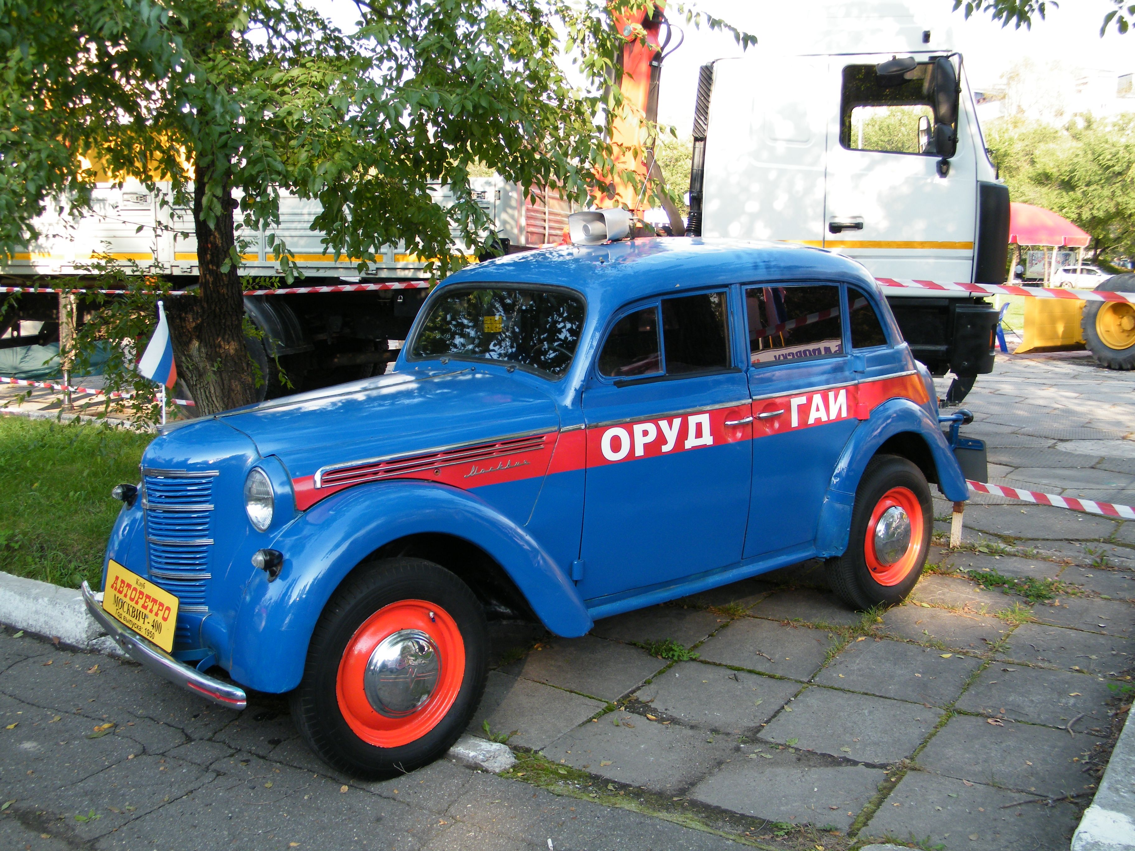 Exhibitions in Khabarovsk